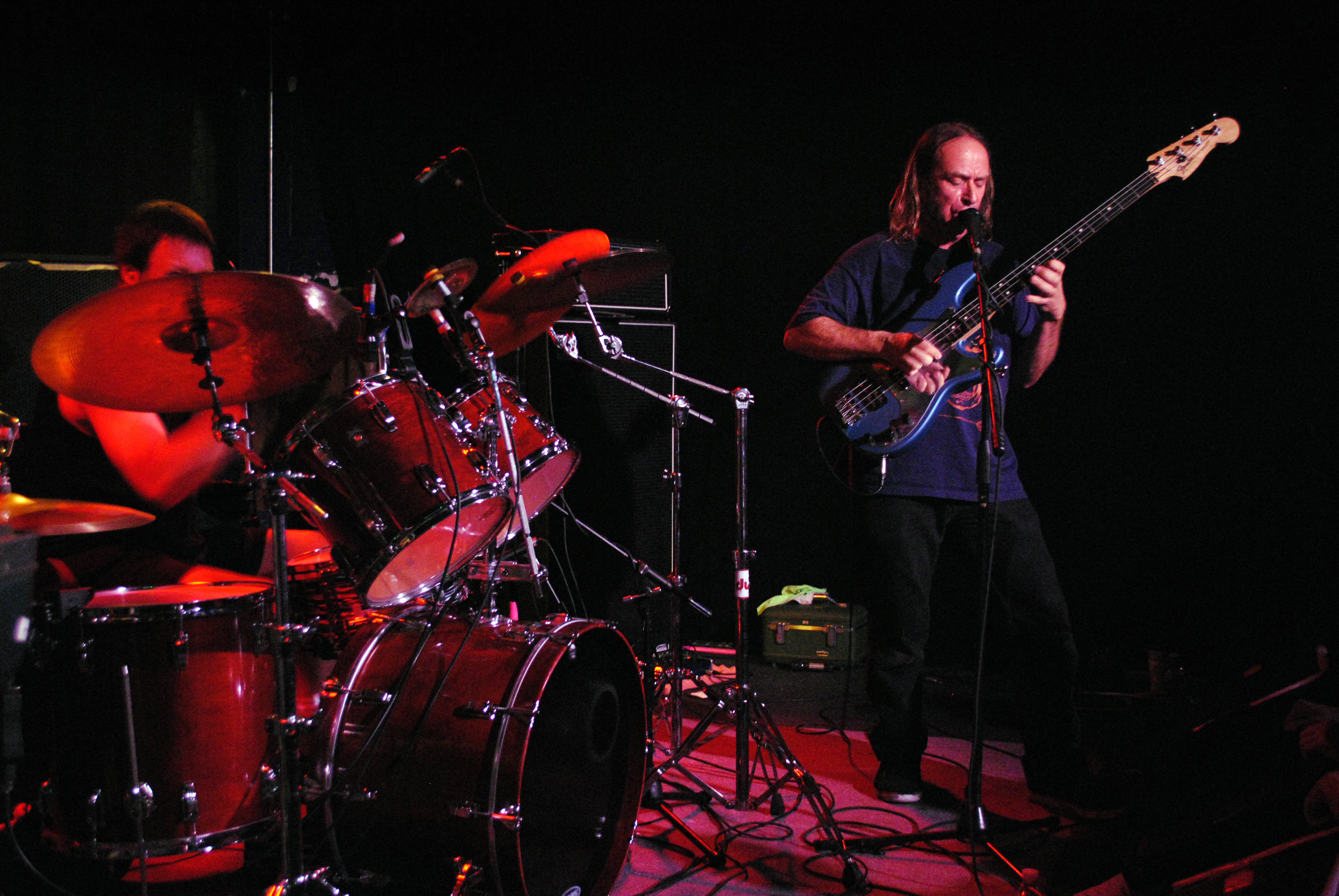 Bastard Noise live on 6/23/2010 in Raleigh, NC @ The Pour House